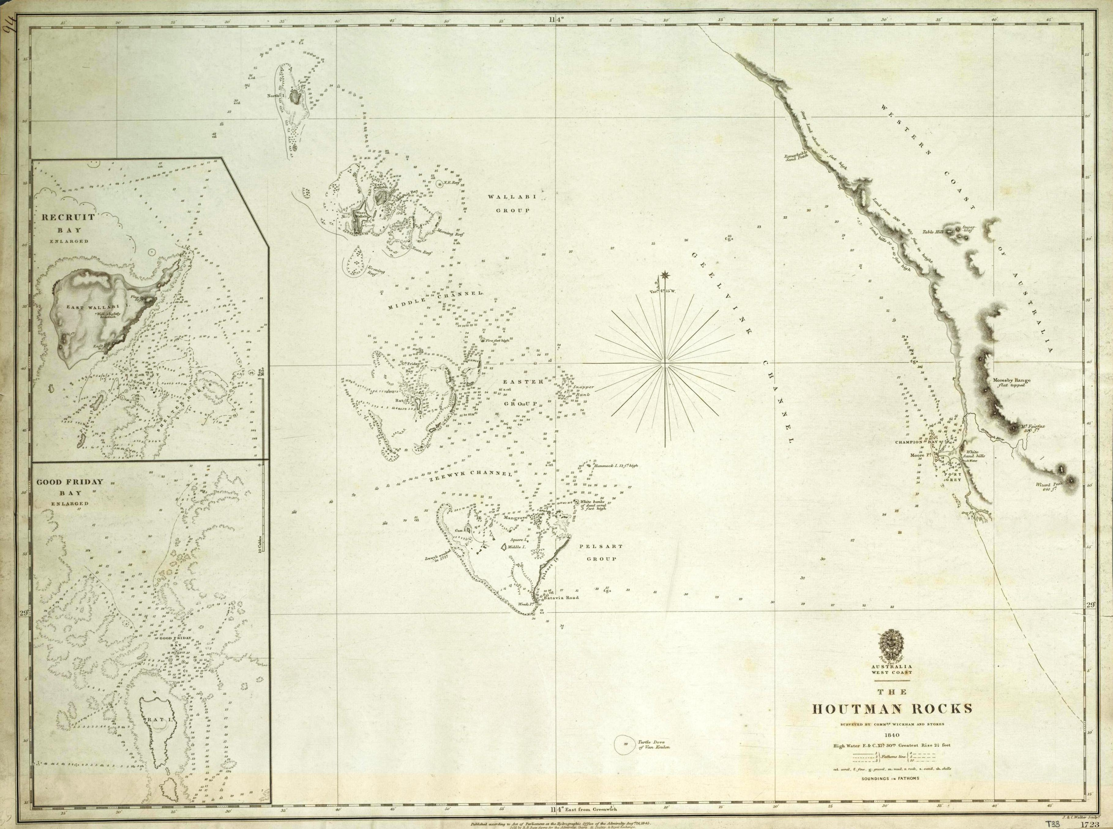 This is an image of British Admiralty Chart 1723, entitled "The Houtman Rocks". It shows an archipelago off the west coast of Australia now known as the Houtman Abrolhos. This map was published in 1845 based on a survey undertaken by John Clements Wickham and John Lort Stokes on board HMS Beagle in 1840. This is a scan of the copy belonging to the National Library of Australia (NLA). It has been slightly cropped, and colour balanced.